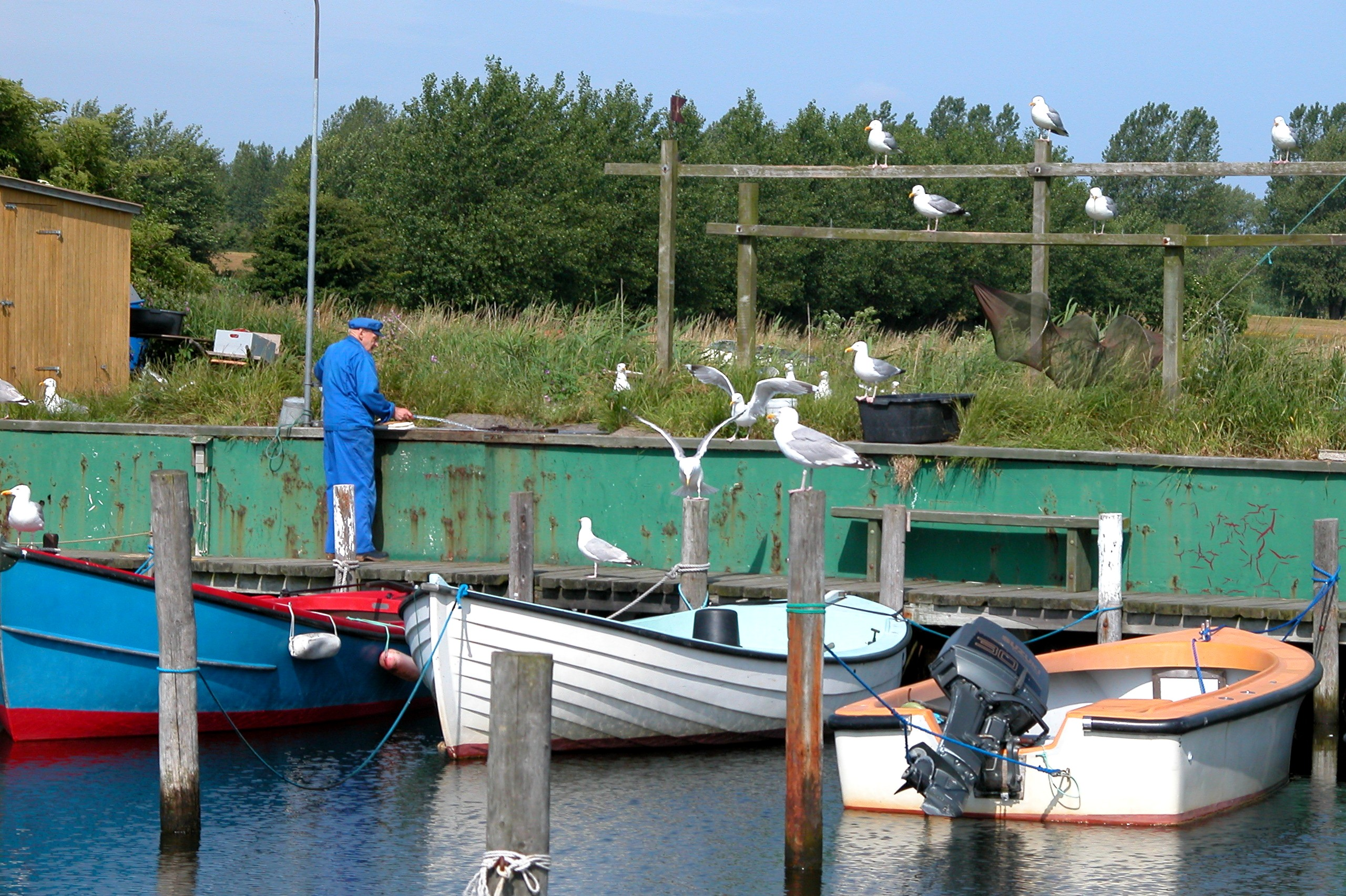 Harbour Strandbyen, Ommel, Ærø, Danmark